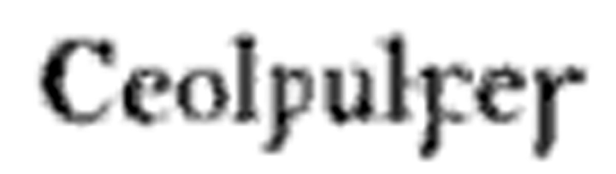 The Name "Ceolwulf" in the Anglo-Saxon Alphabet; from a page of the Anglo-Saxon Chronicle